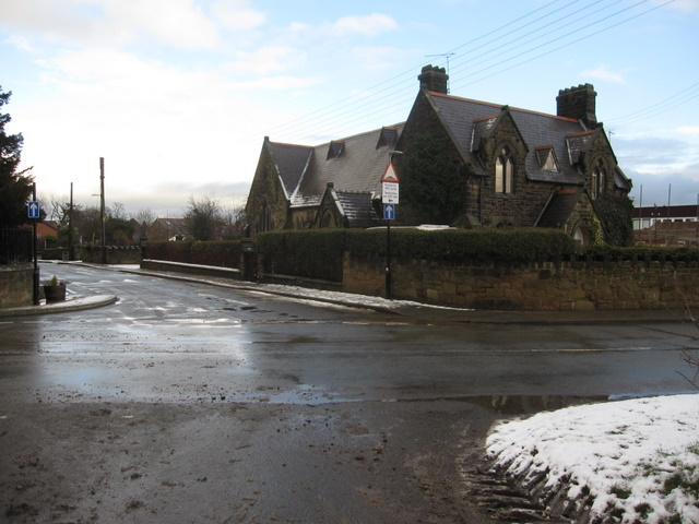 All Saints' School, Gresford All Saints' School is on School Hill, Gresford, opposite the south side of the churchyard. It has a long history and also an excellent website